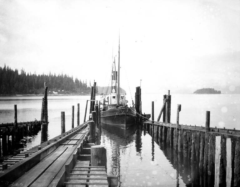 From John Cobb field notebook: Slip with S.S. Kayak entering at cannery, Loring, Alaska. July 14, 1904 . Probably the Alaska Packer's Association cannery at Loring. Subjects (LCTGM): Piers & wharves--Alaska--Loring; Canneries--Alaska--Loring Subjects (LCSH): Kayak (Steamship); Steamships--Alaska--Loring; Salmon canning industry--Alaska--Loring; Docks--Alaska--Loring